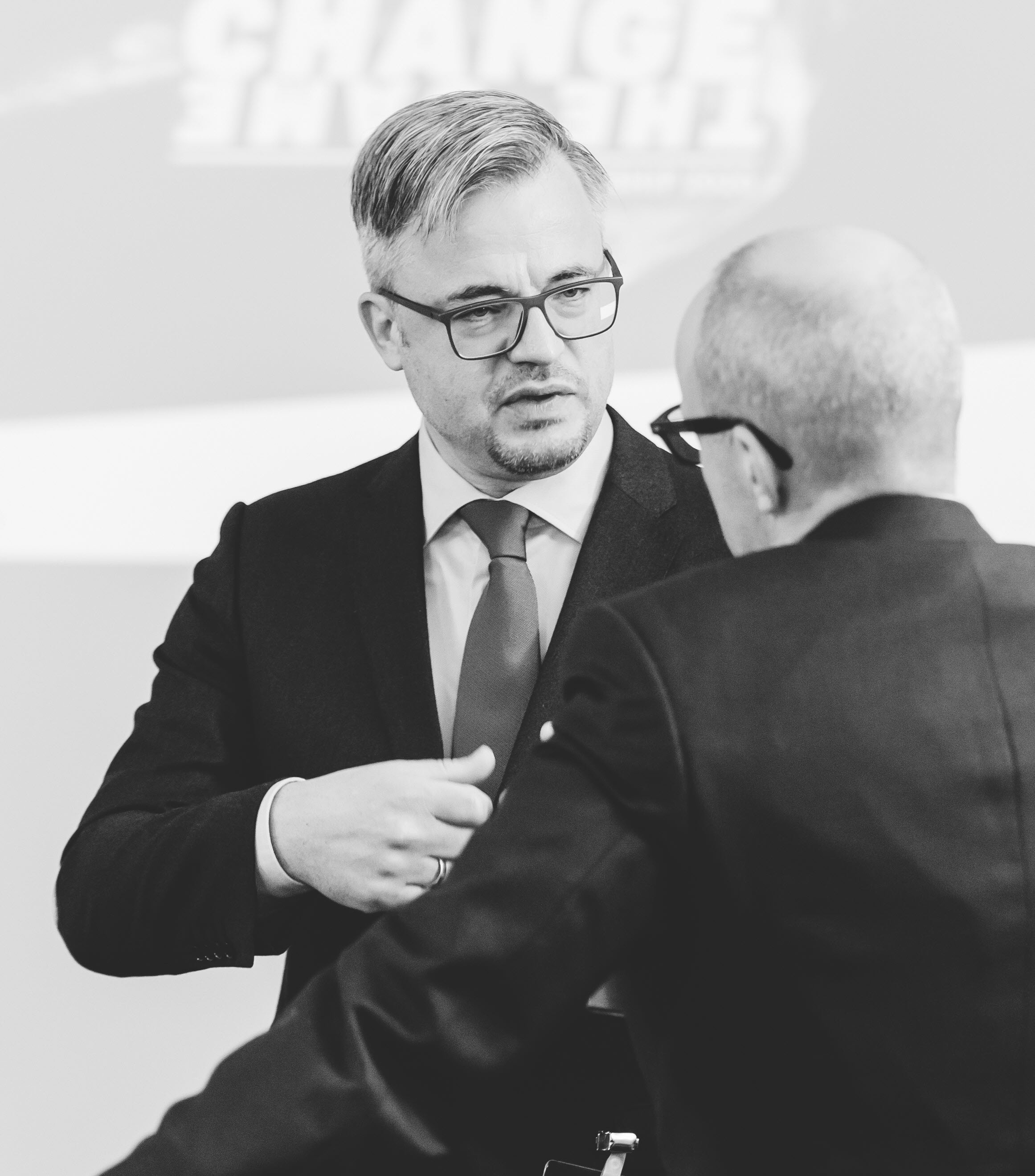 Prof. Dr.-Ing. Guido H. Baltes